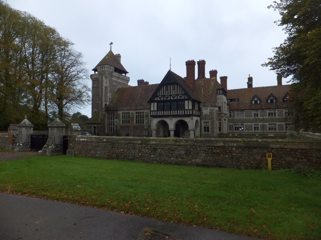 The main house, Rousdon estate